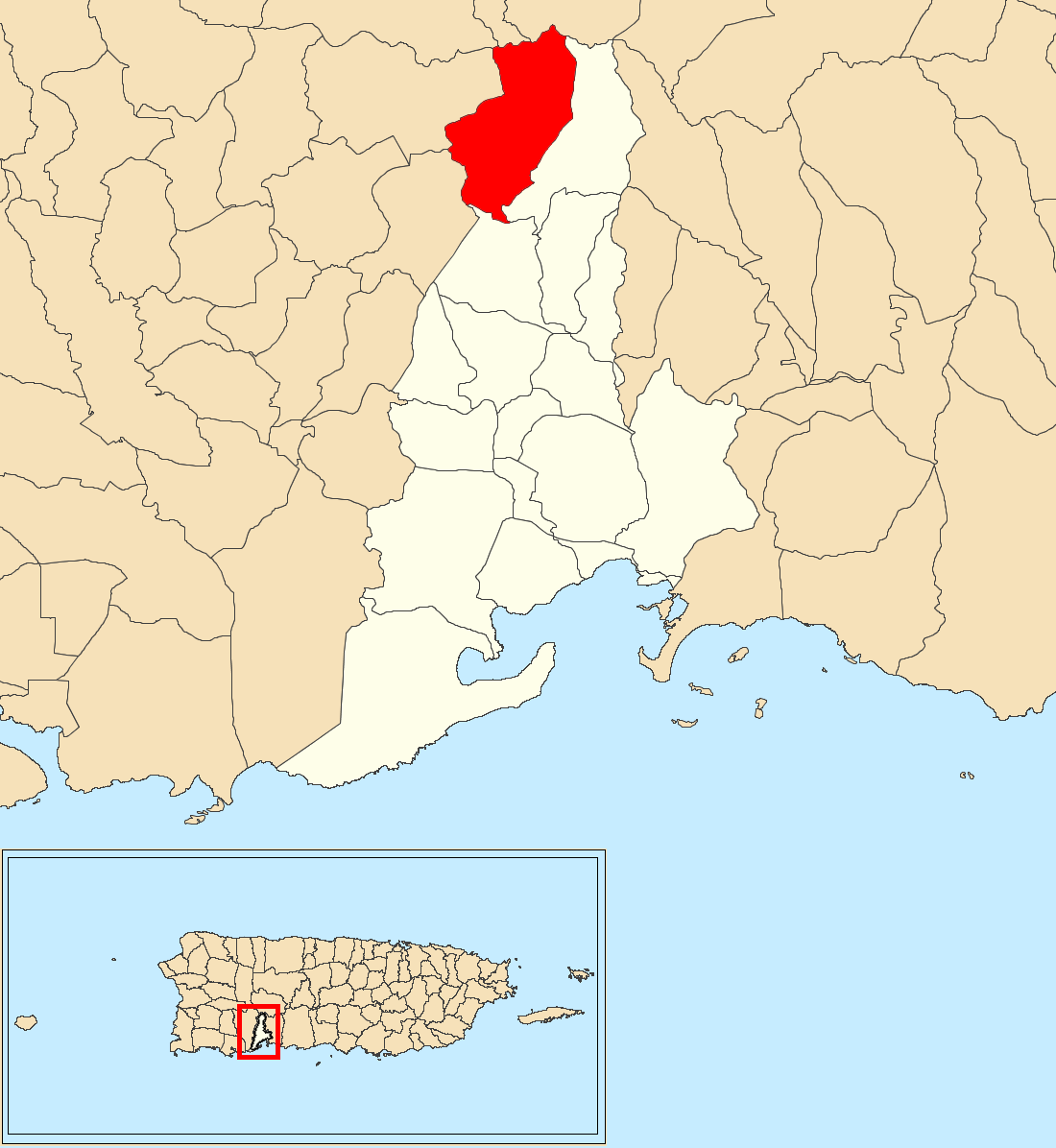 Pasto, Guayanilla, Puerto Rico locator map